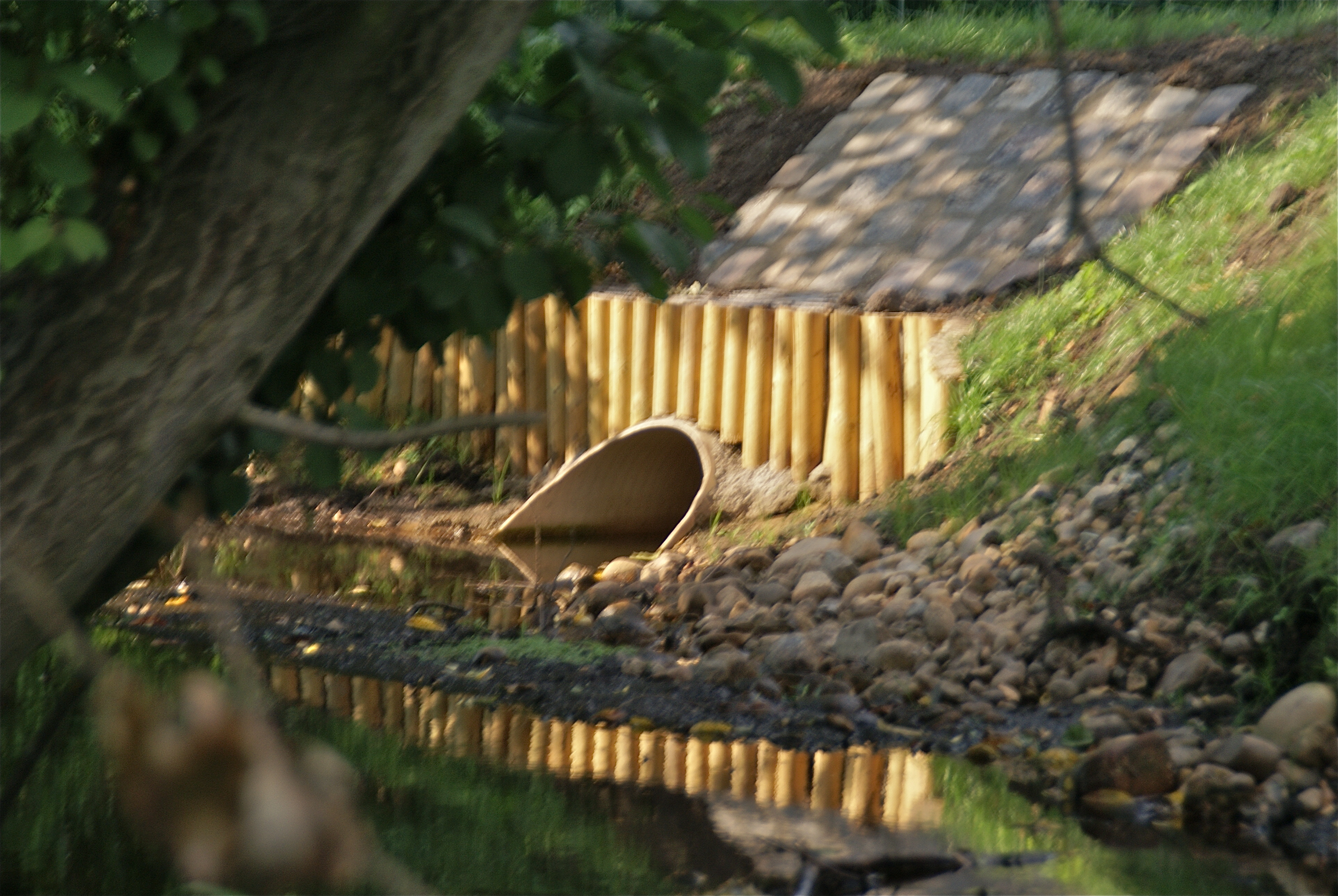 Norderstedt, Germany: The confluence of the rivers Ossenmoorgraben and Tarpenbek